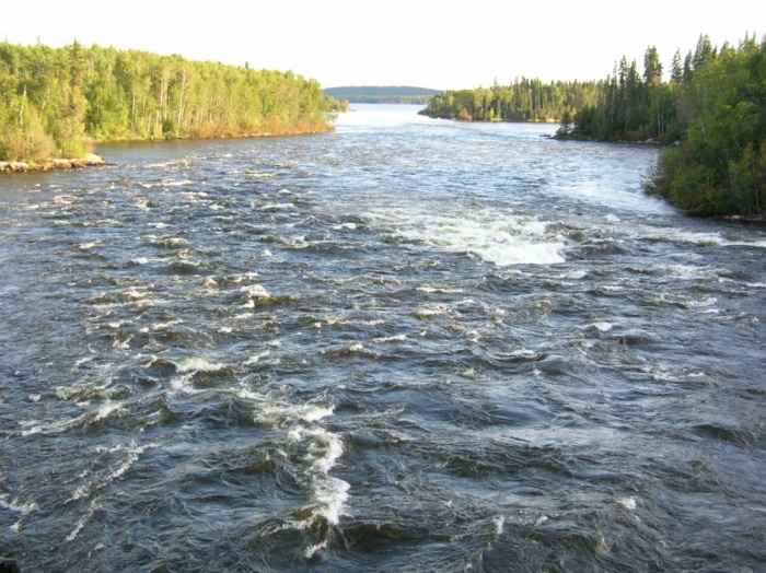 Otter Rapids (lower half) in Saskatchewan looking south from the Churchill River Bridge. 31 Aug 2008